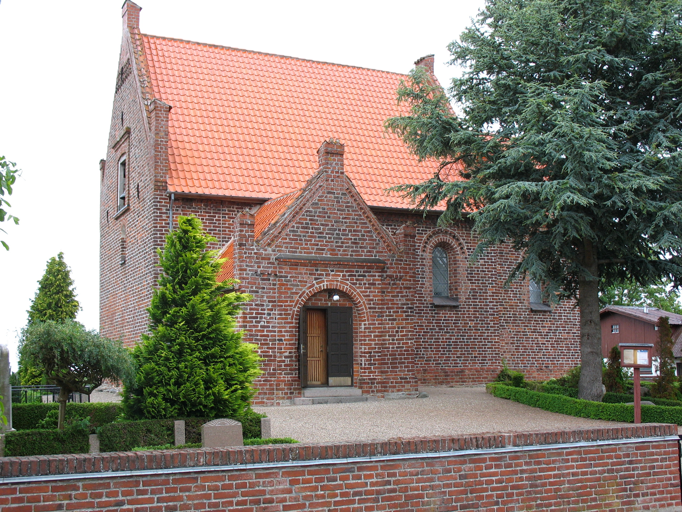 The church "Krønge Kirke" south of the town "Maribo". It is located on the island Lolland in east Denmark.